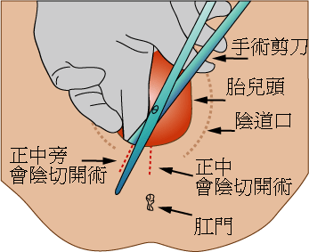 Medio-lateral episiotomy illustration. Based on 1/9/2005 Jeremy Kemp's image[1]. zh-tw label.